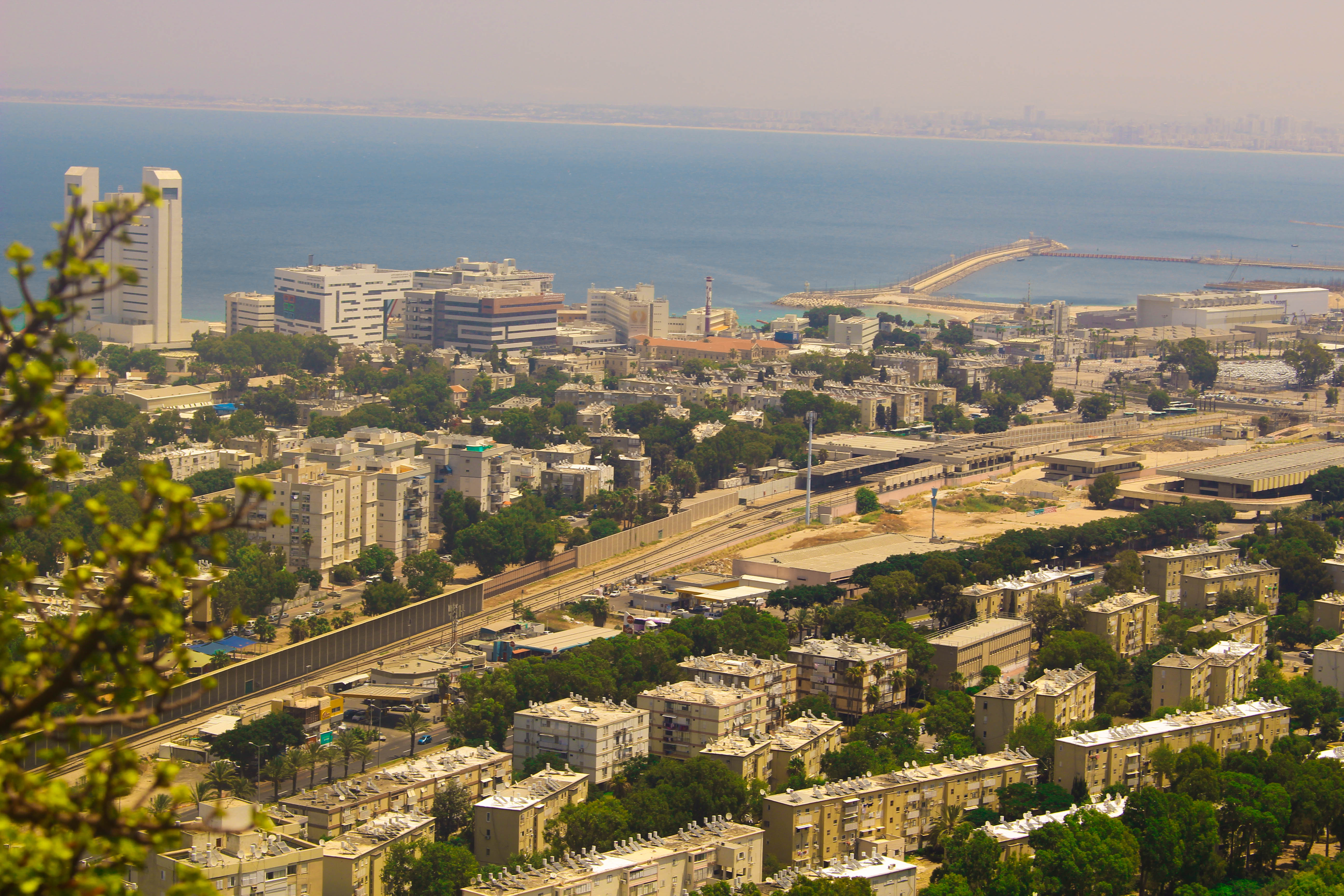 an above picture of Haifa city in Palestine with the Mediterranean sea.